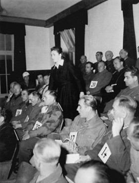 Reba Levy, a Lithuanian Jew and former Dachau inmate, identifies defendant Johann Victor Kirsch as the perpetrator of numerous atrocities, at the trial of former camp personnel and prisoners from Dachau.